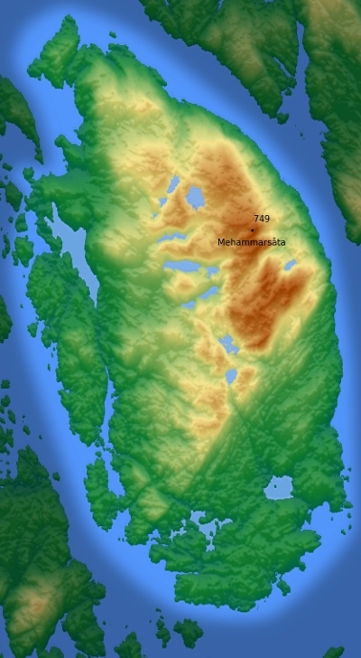 Stord, tophographic map